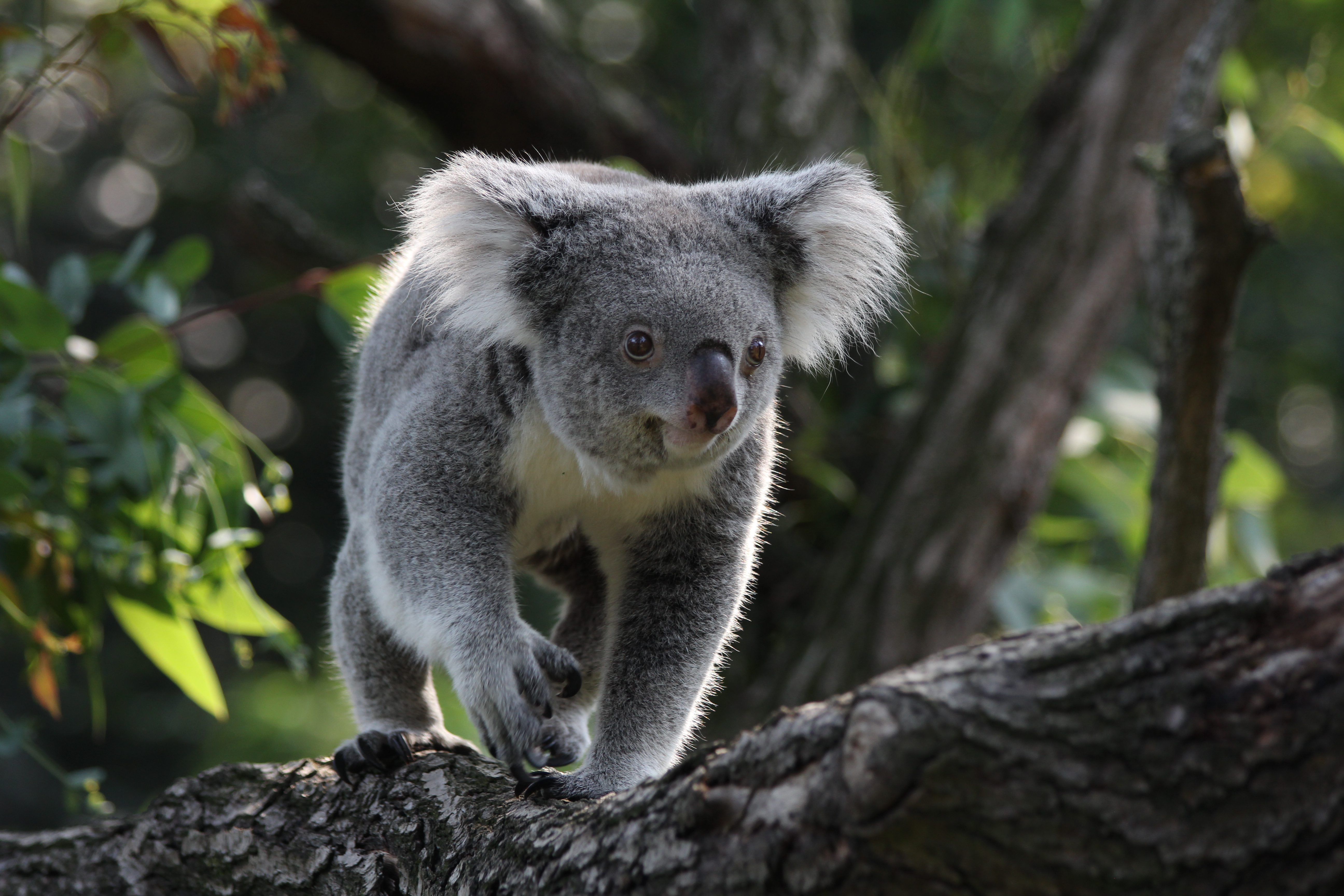 Koala (Phascolarctos cinereus) in Zoo Duisburg, Germany